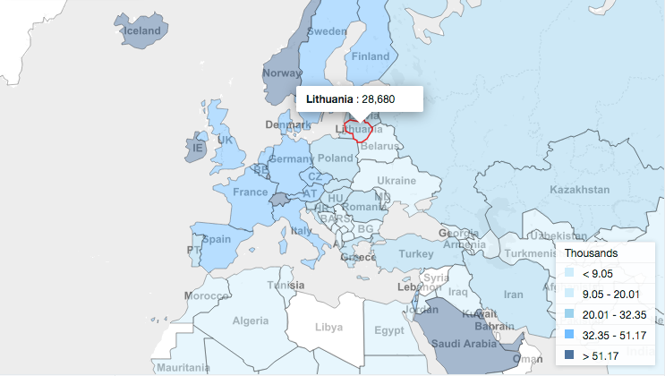 GNI - Gross National Income of Lithuania in year 2016, data